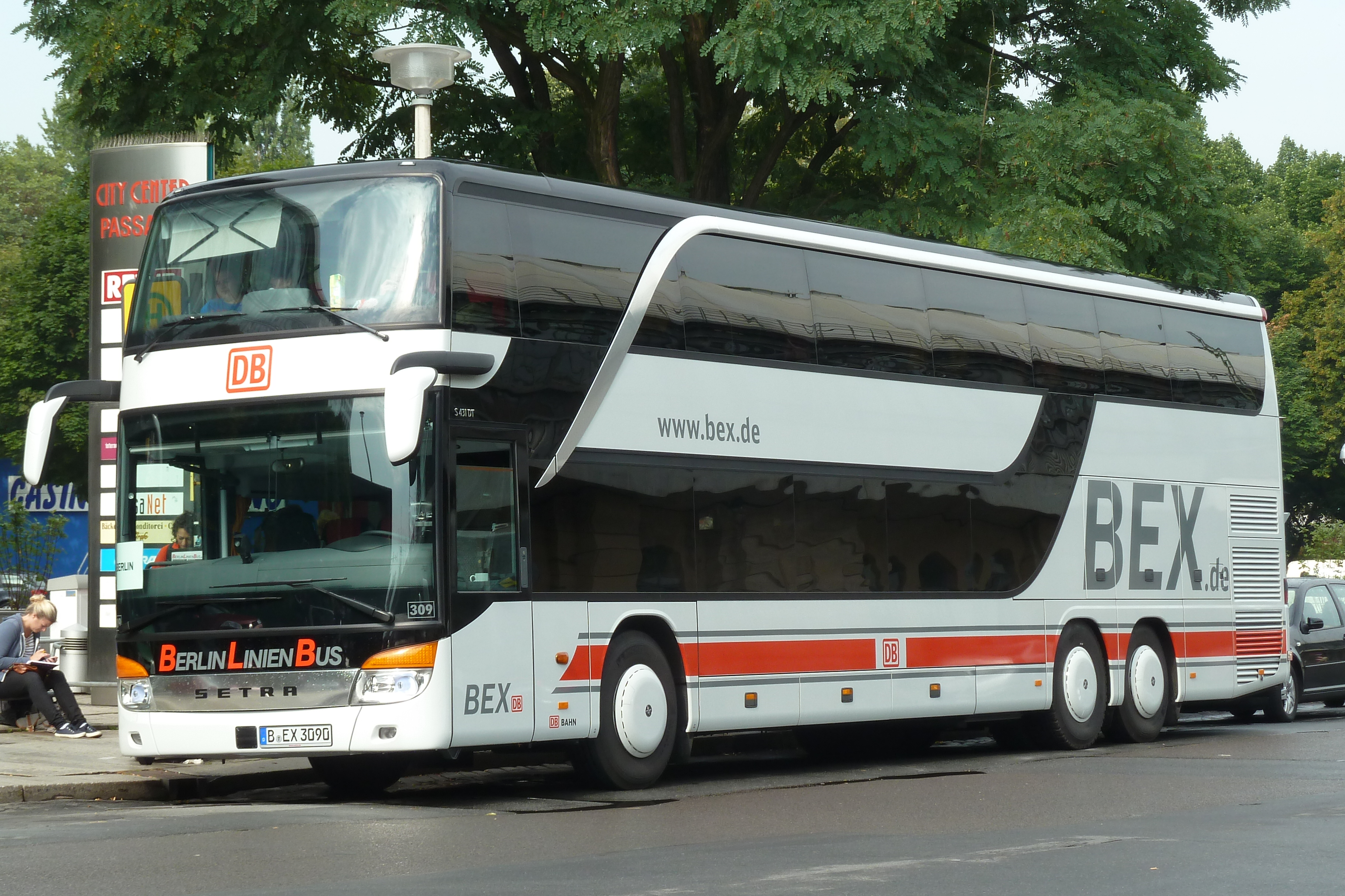 Setra S 431 DT intercity coach (#309, reg. B-EX 3090) Dresden-Berlin operated by BEX / Berlin Linien Bus (Bayern Express und P. Kühn Berlin GmbH), picture taken at the Dresden Central Station.